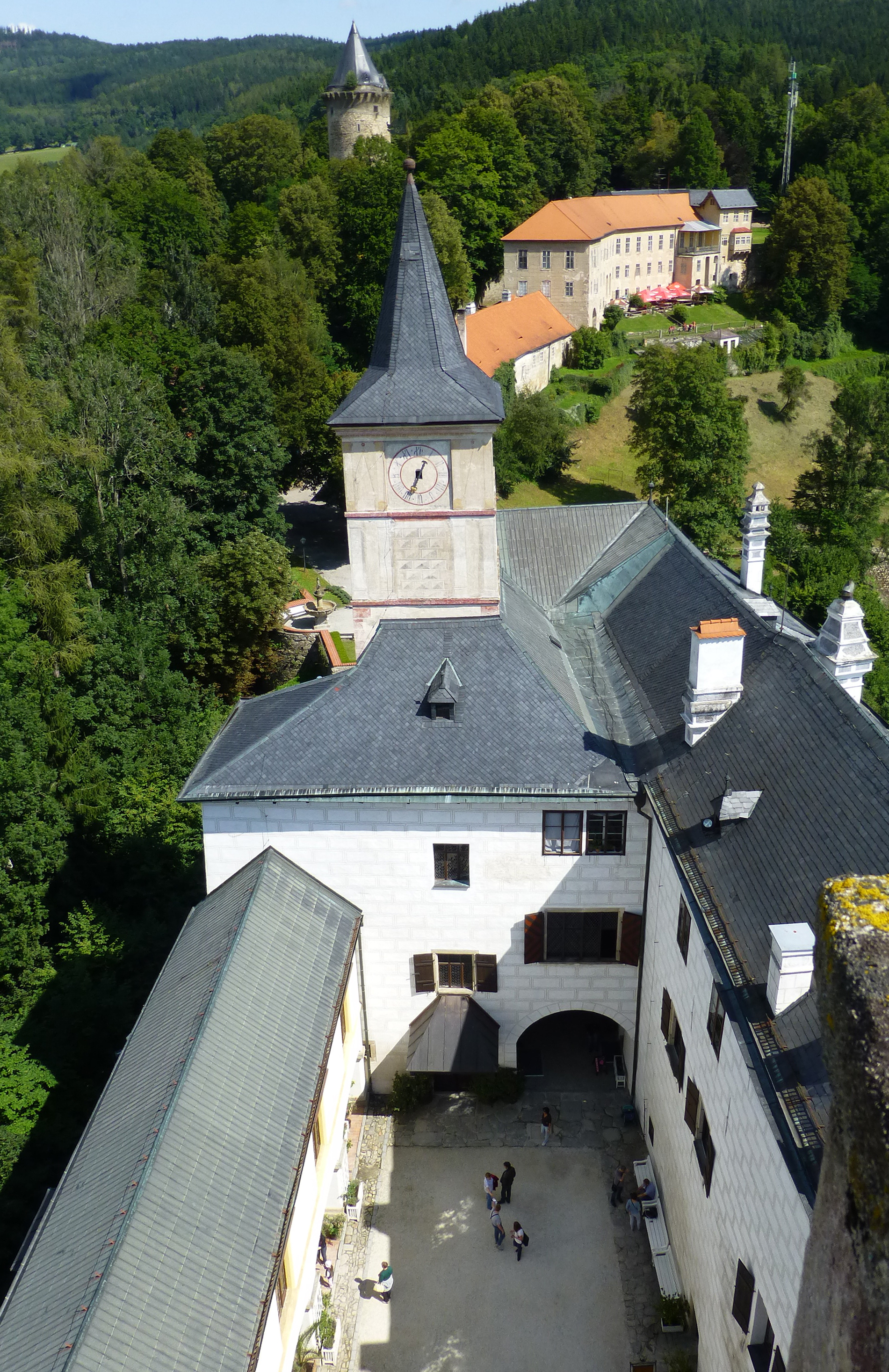 Castle Court, Rožmberk nad Vltavou, South Bohemian Region.